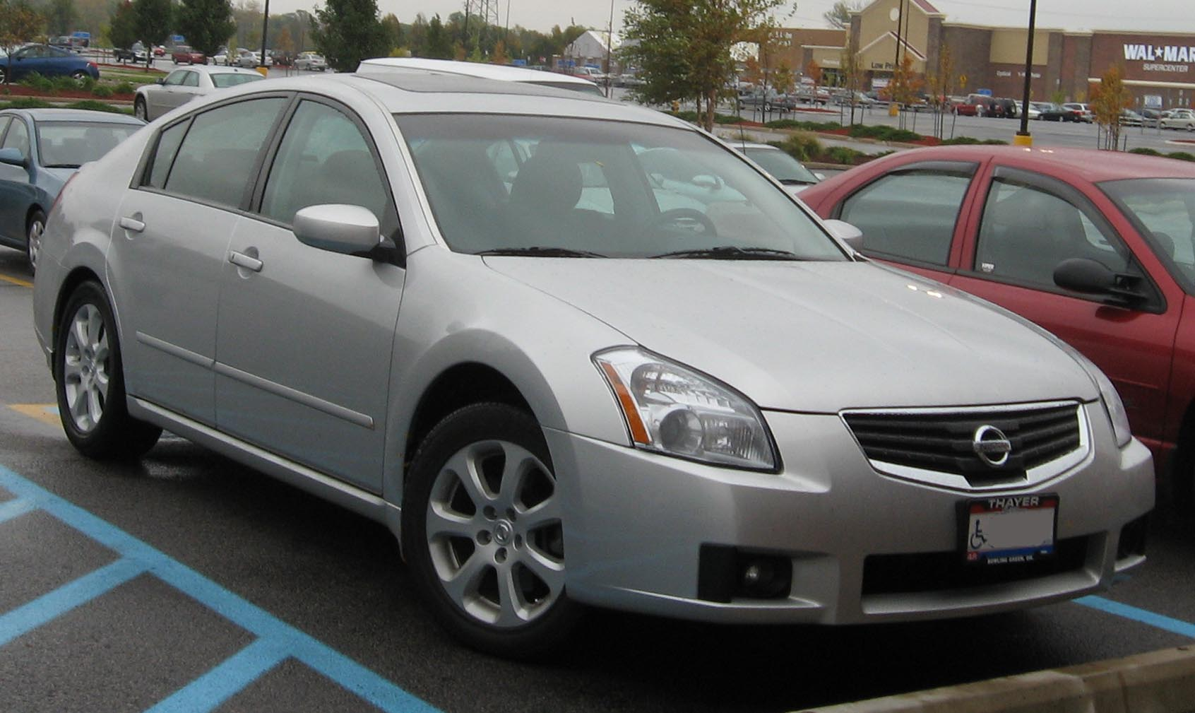 2007-2008 Nissan Maxima photographed in Toledo, Ohio, USA.